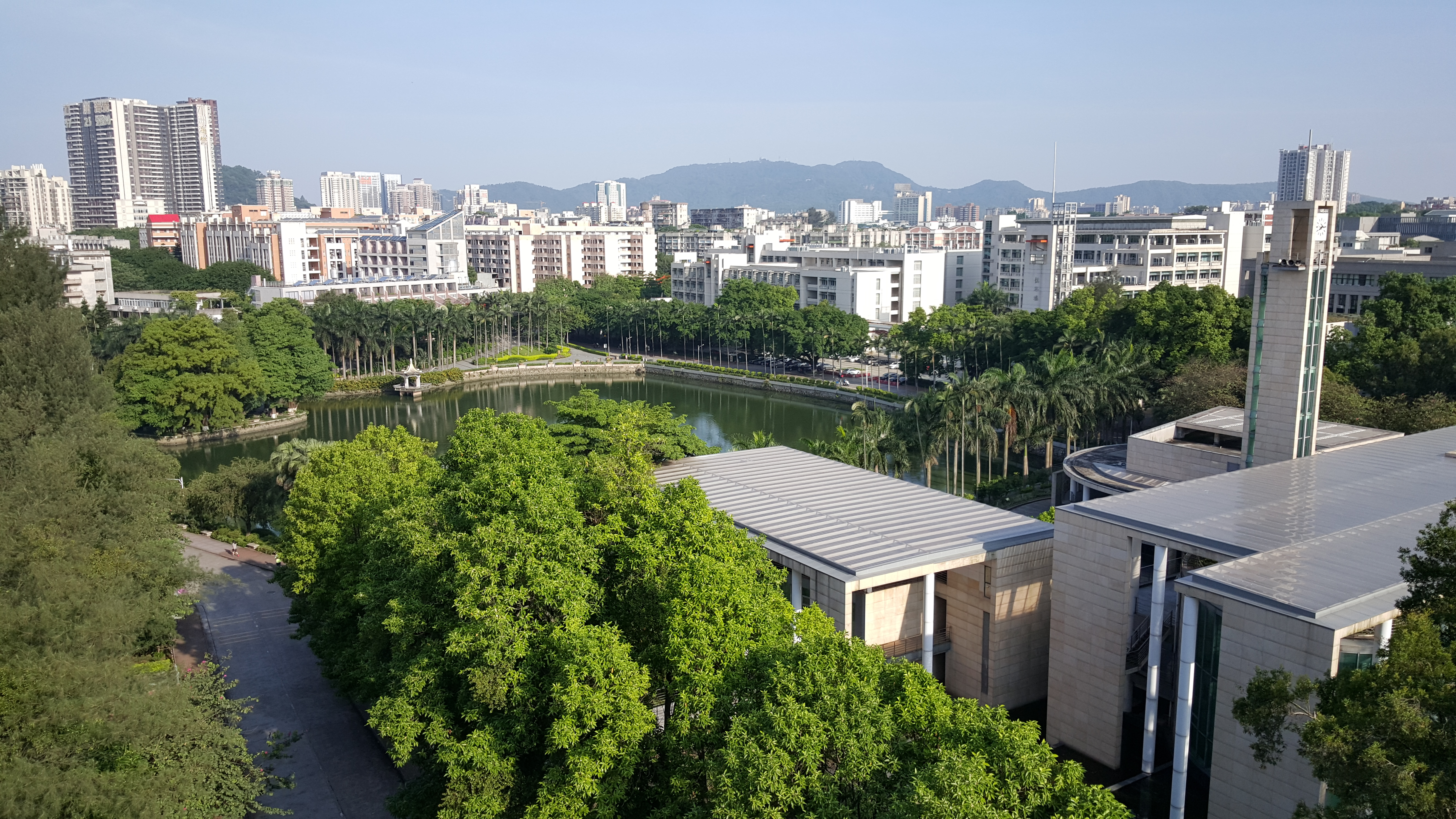 Shaw Building of Humanities and West Lake, South China University of Technology.